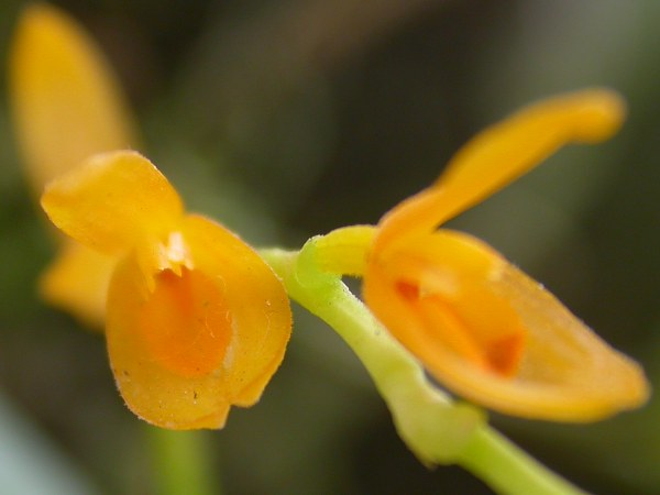 Photos by Americo Docha Neto & Dalton Holland Baptista for Orchidstudium